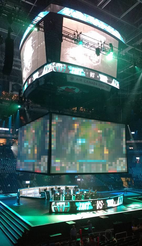 The stage for the 2016 Summer North American League Championship Series, held in Toronto.